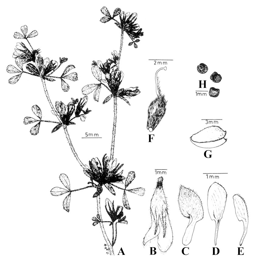 Illustration of Lotononis platycarpos